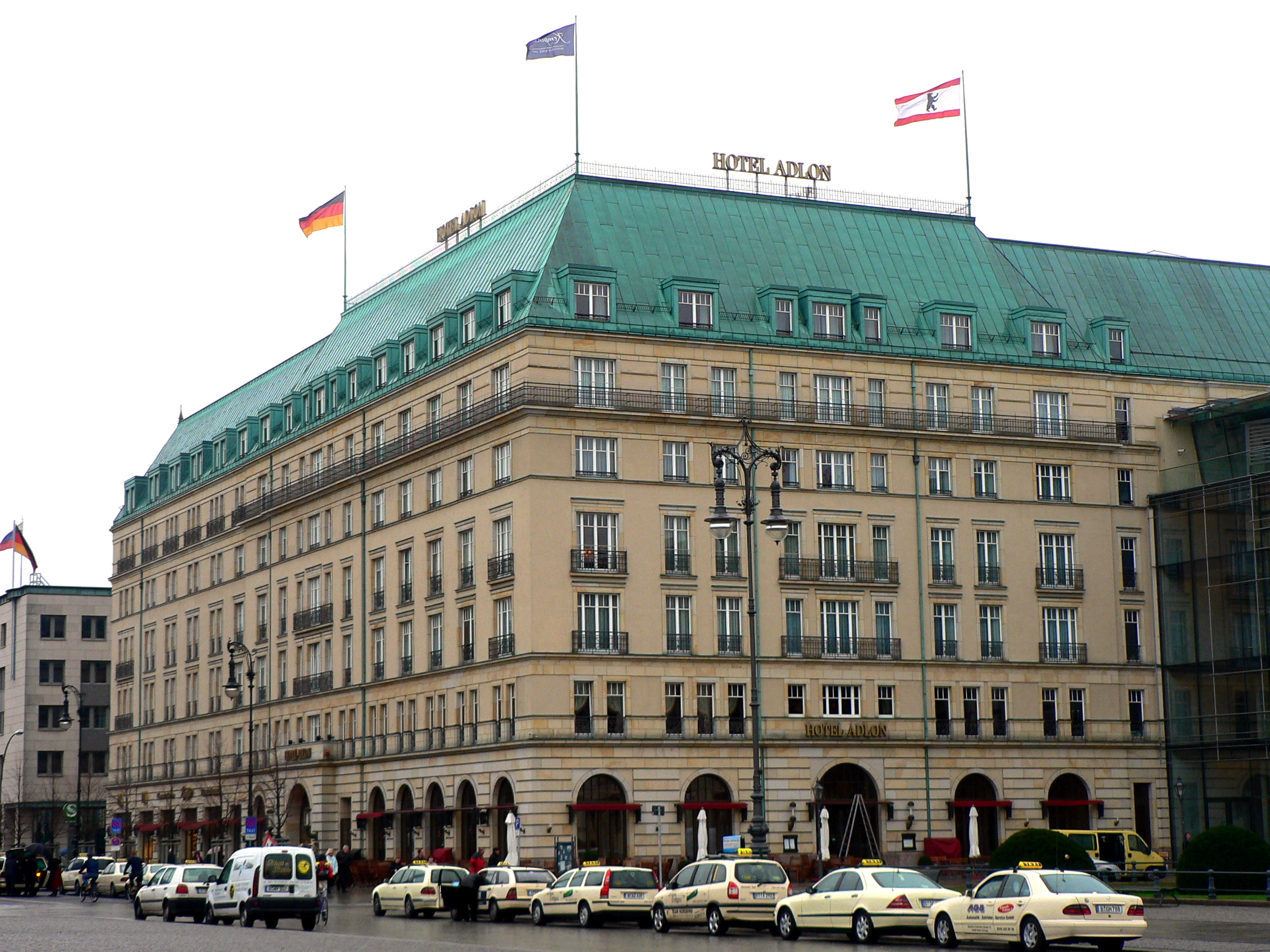 Hotel Adlon, Berlin, Germany.